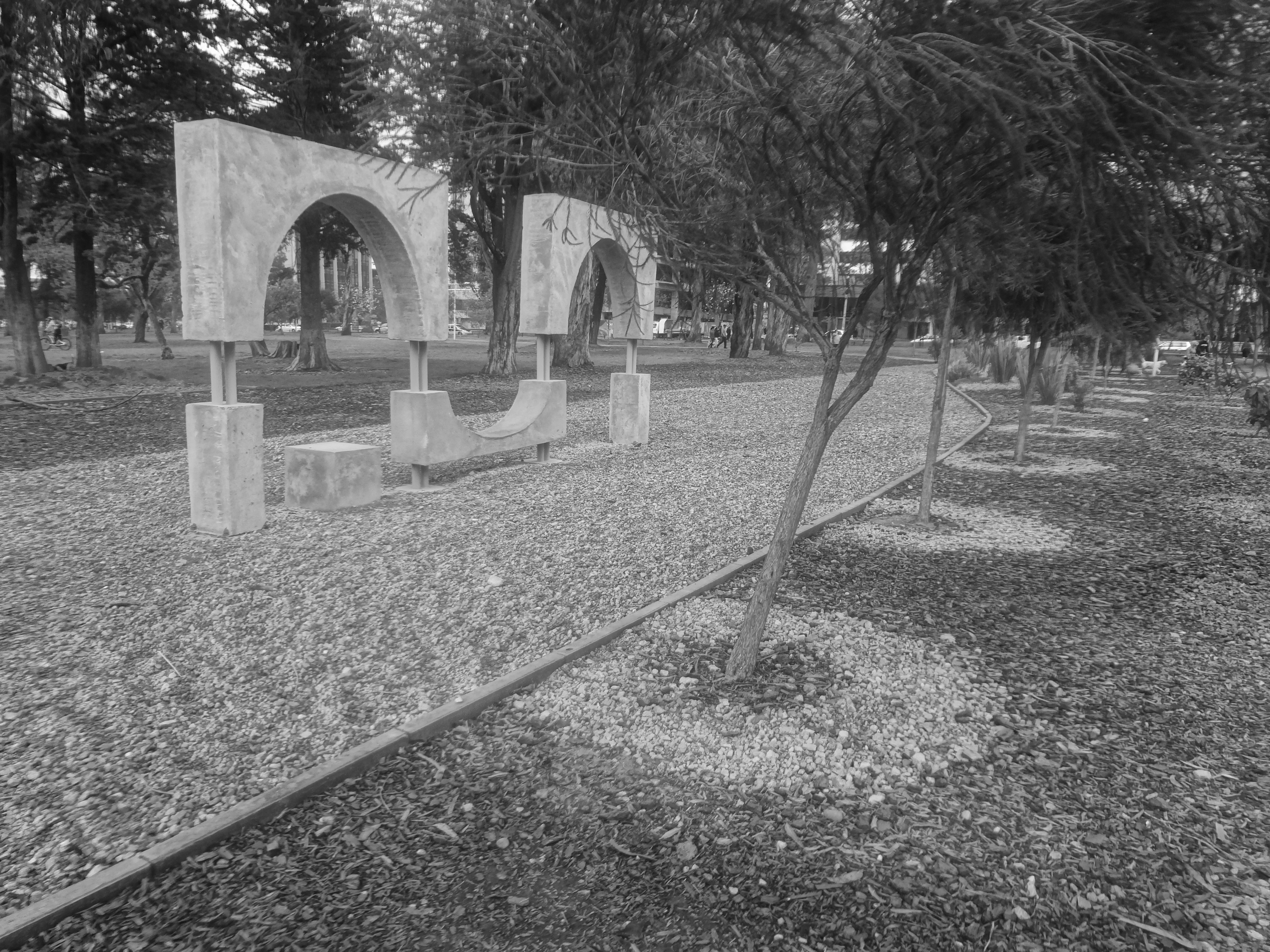 Parque La Carolina, in black and white professional photographer David Adam Kess Photography by David Adam Kess